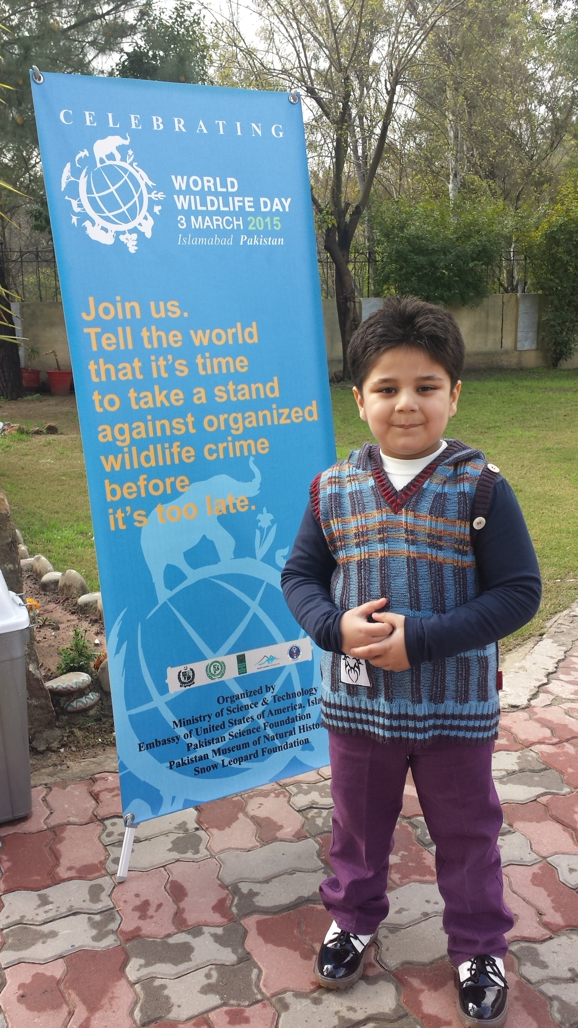 کے موقع پرWorld Wild life Day March 3, 2015 پانچ سالہ زیدان پاکستان میوزیم آف نیچرل ہسٹری میں